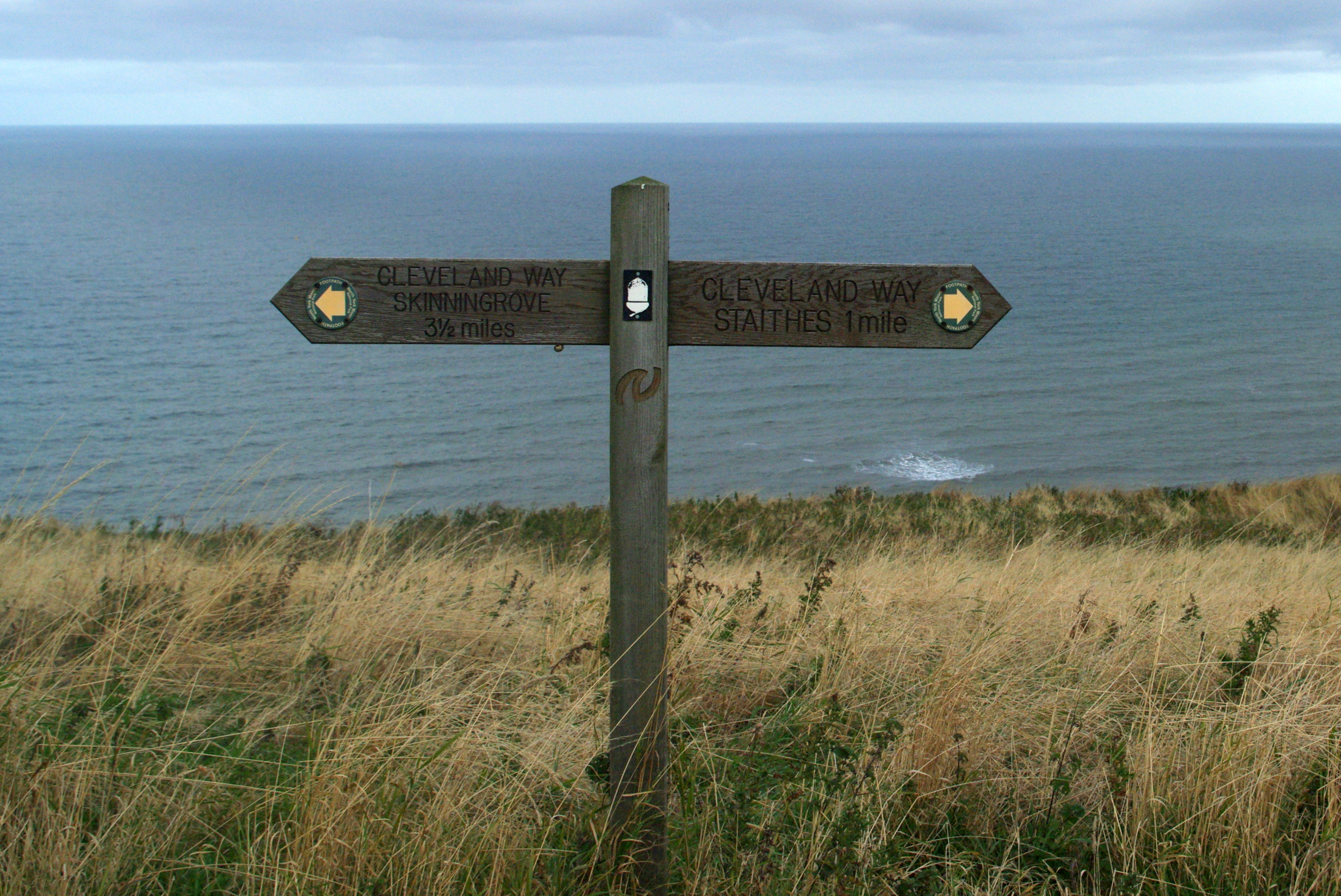 Sign of the Cleveland Way National Trail, close to Boulby, Yorkshire